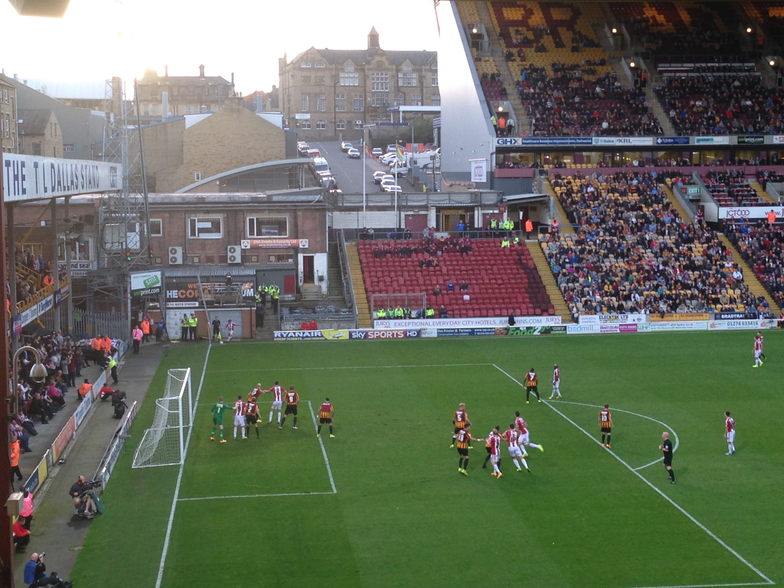 Bradford City v Sheffield United on 18 October 2014 at Valley Parade.